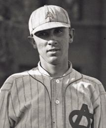 Photo, Bailey J. Santistevan, Sr.